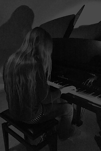 Nortt, pictured, playing piano